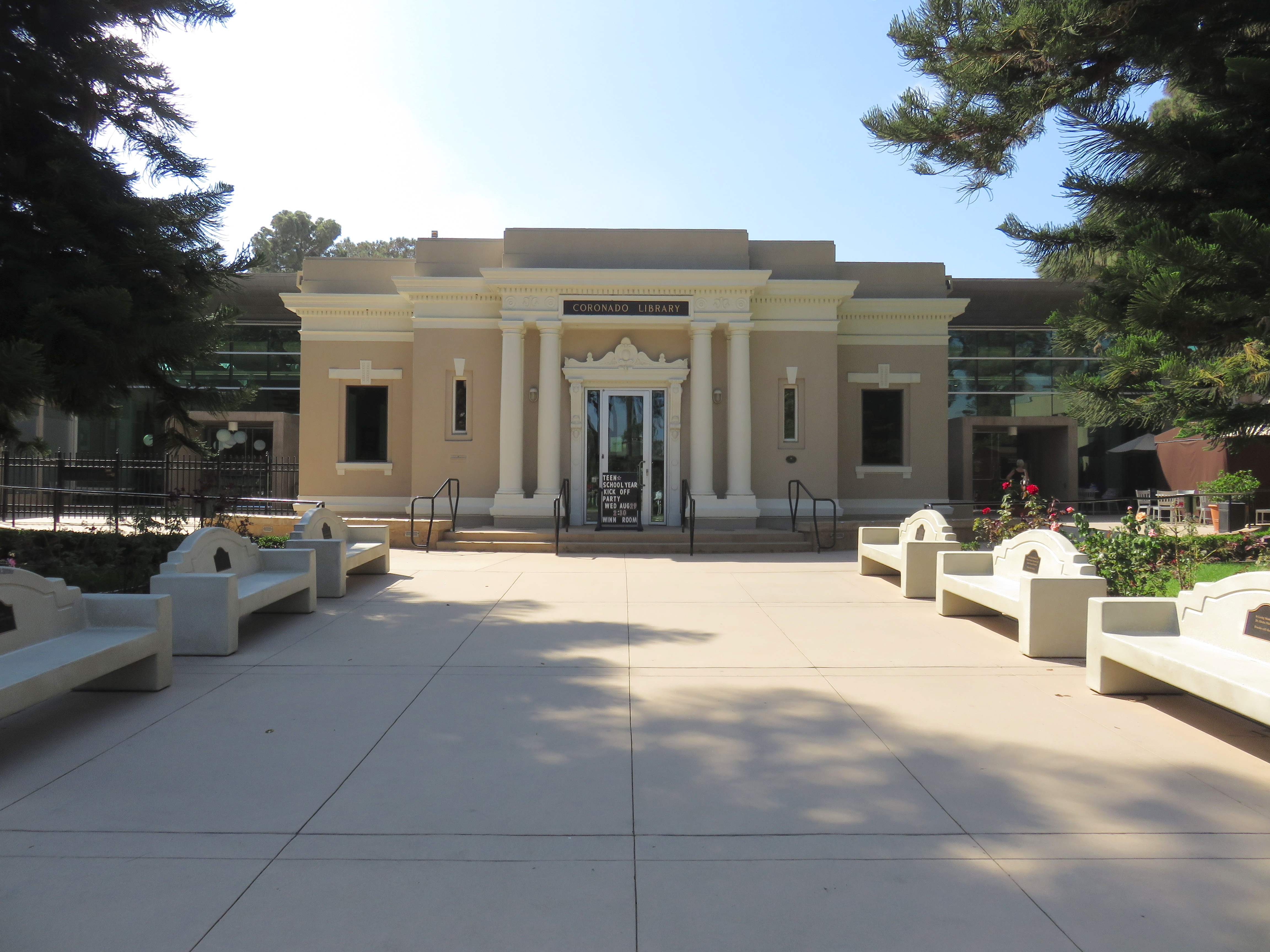 Coronado Public Library in 2018